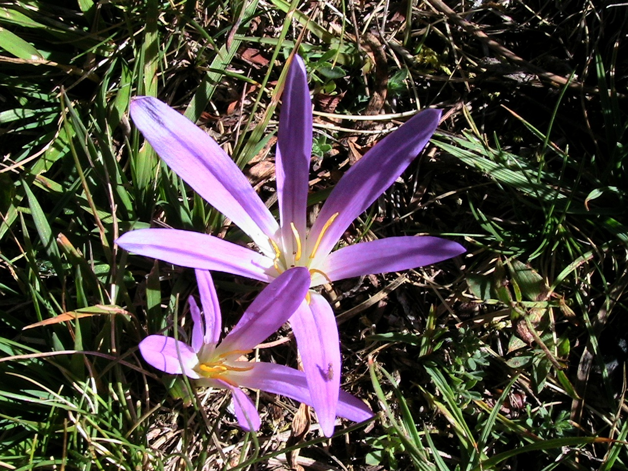 Colchicum montanum. In la Bòfia, Odèn (Solsonès - Catalunya). To 1.750 m. altitude